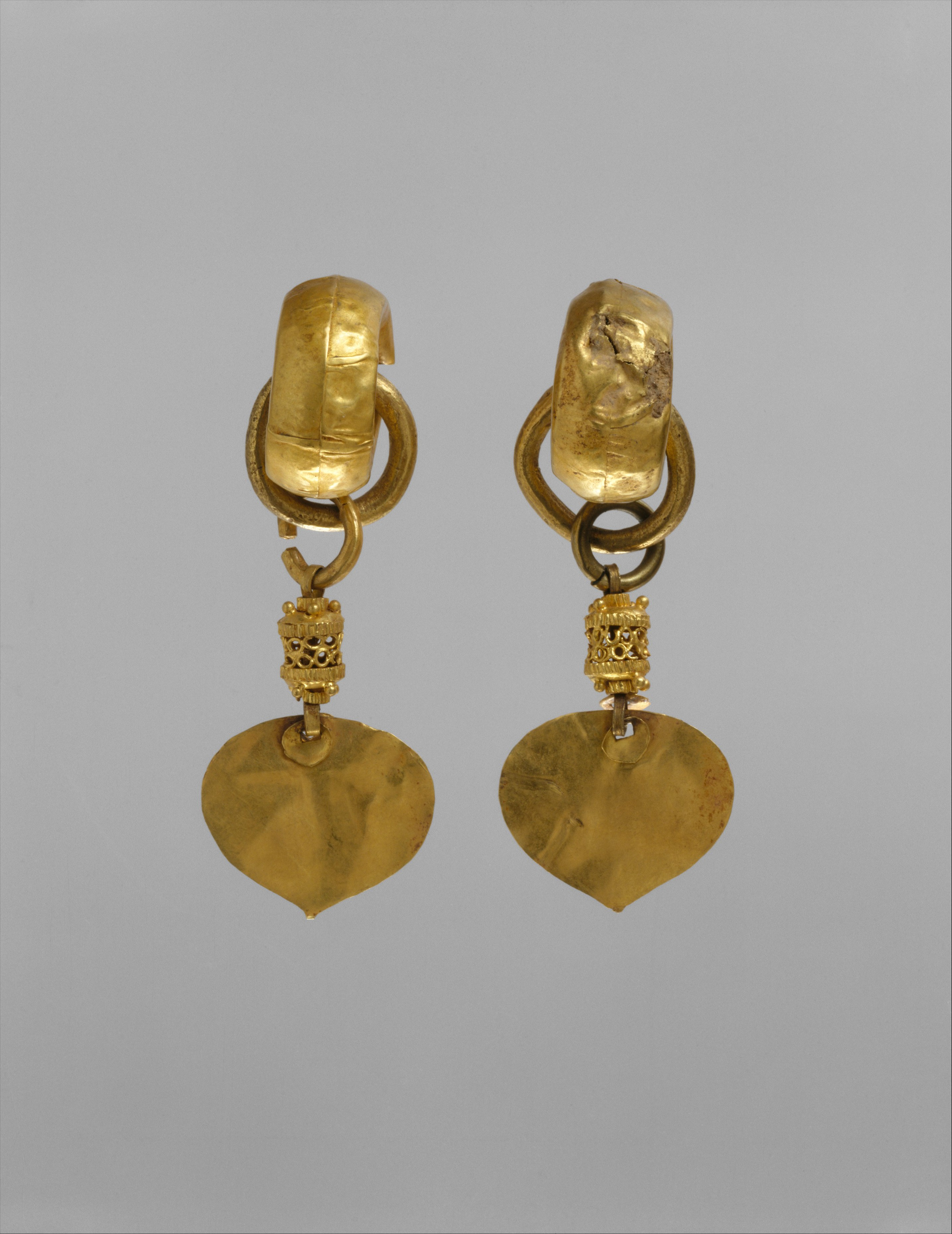 Korea; Earring; Jewelry